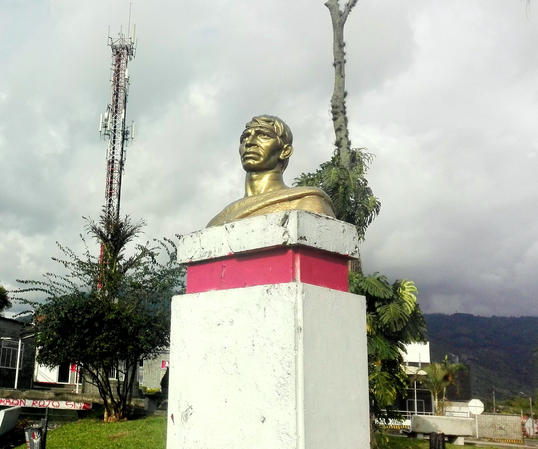 Bust of the pre-Columbian warrior Karlacá. In the Park The Cacique in the city called Calarcá.